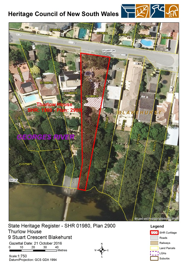 Thurlow House: SHR Plan No 2900